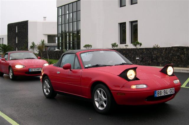 A first-generation Mazda MX-5 with retractable headlights raised (front) and second-generation Mazda MX-5 (rear)